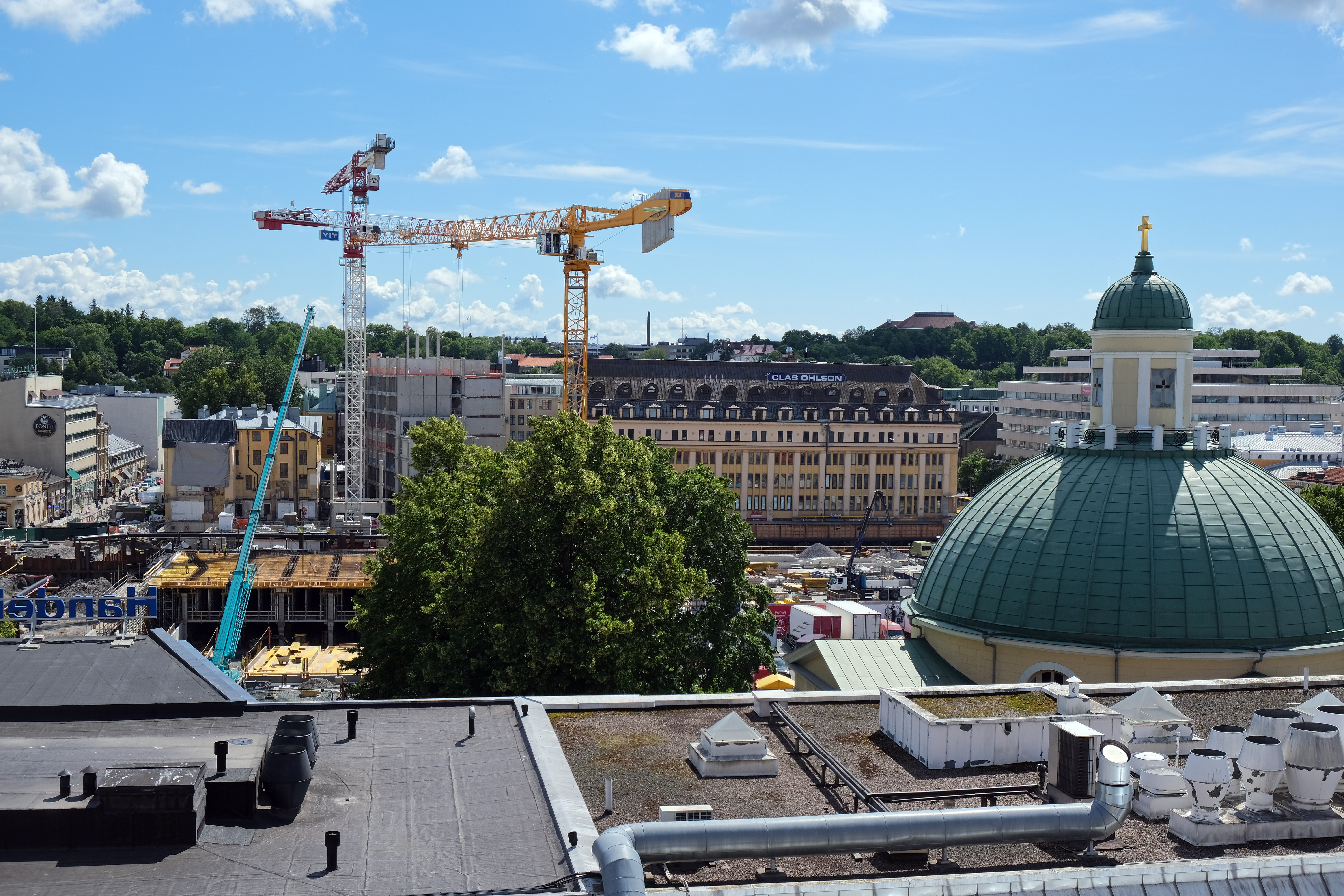 Toriparkki construction site, Turku.